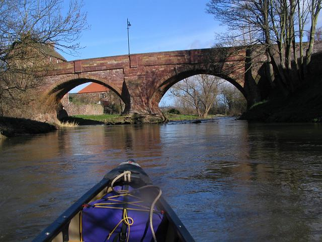 The Auld Brig The old Tyne Bridge at East Linton.